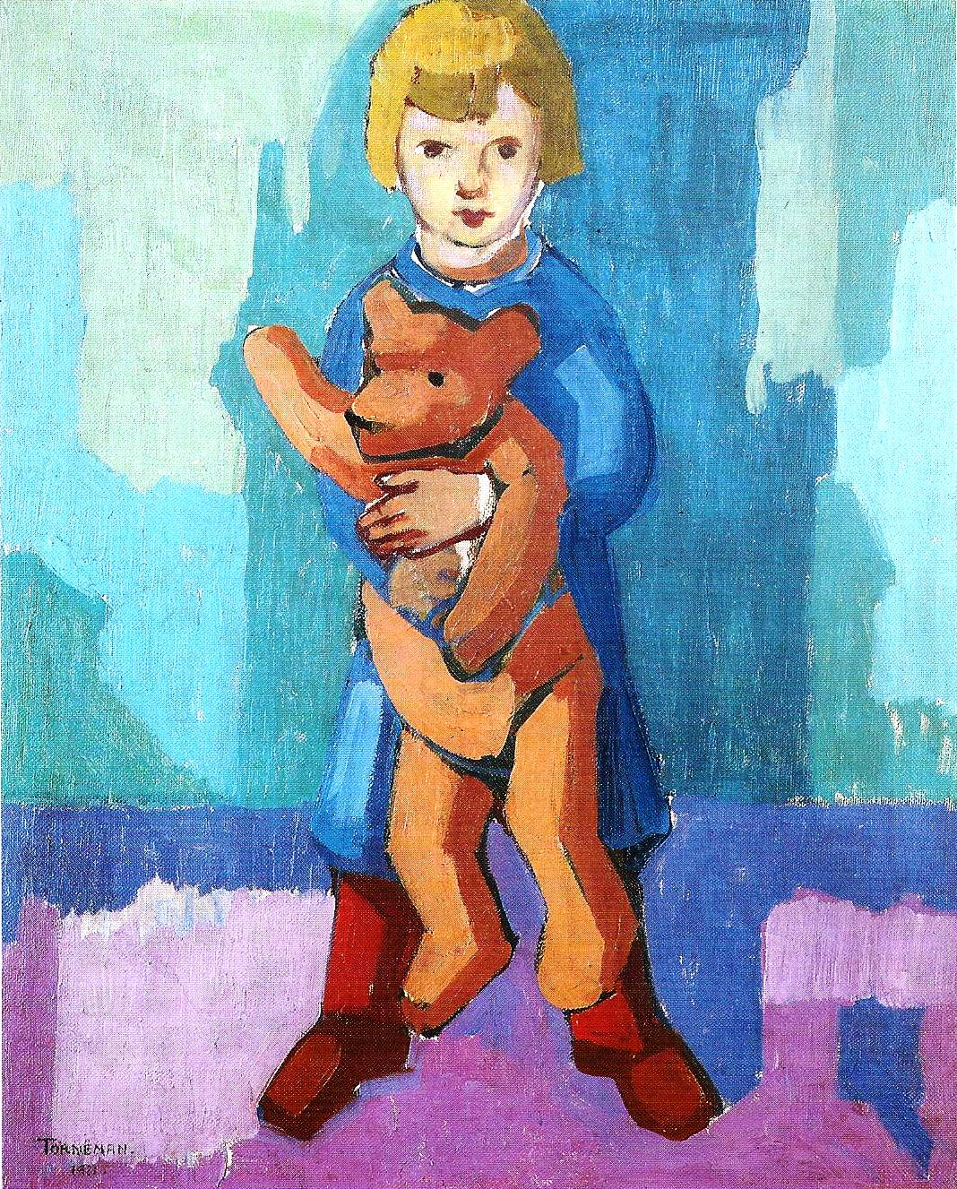 Portrait of the artist's son, Algot